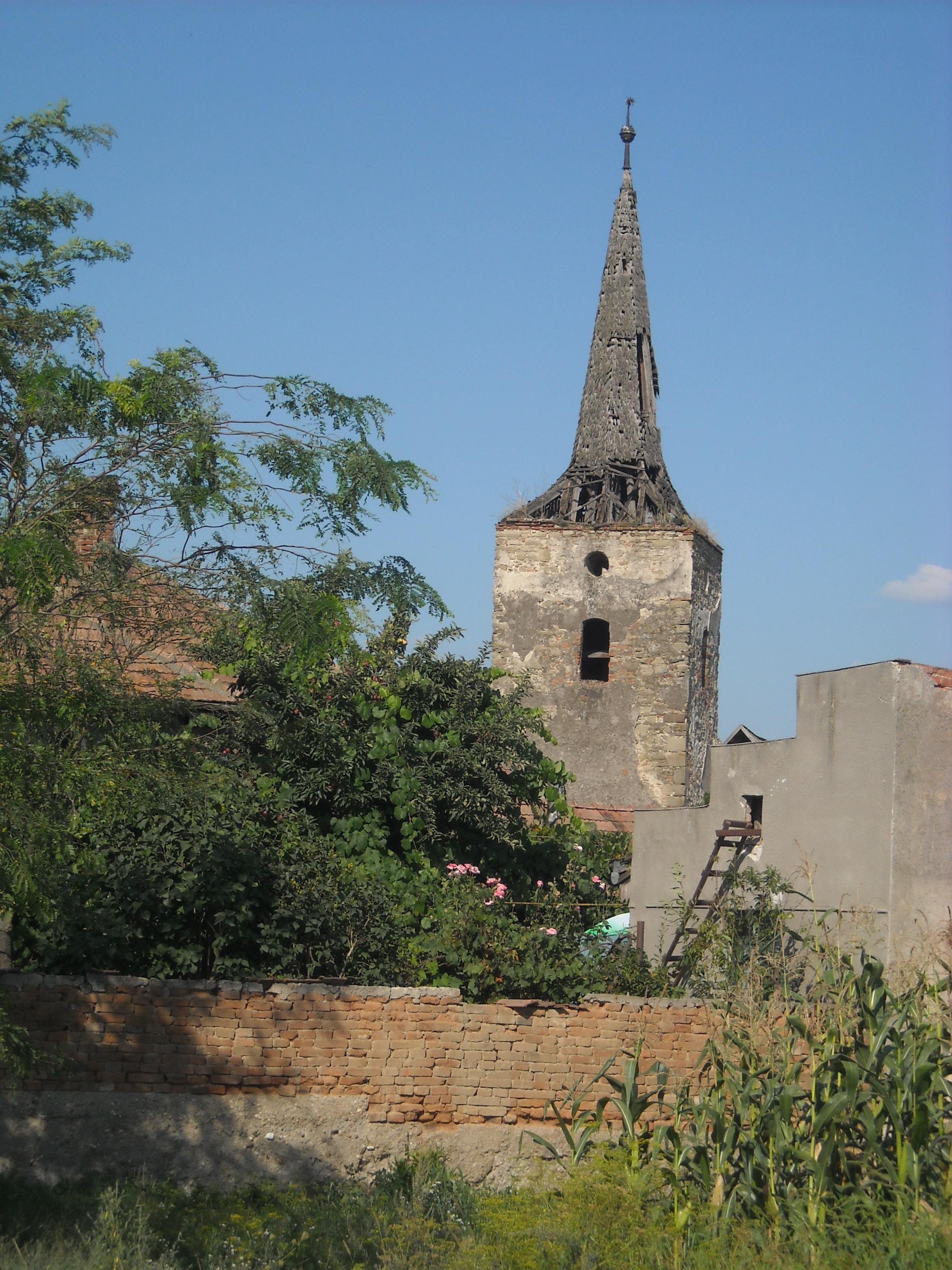 Calvinist Church in Vurpăr (Borberek), Alba County, Romania